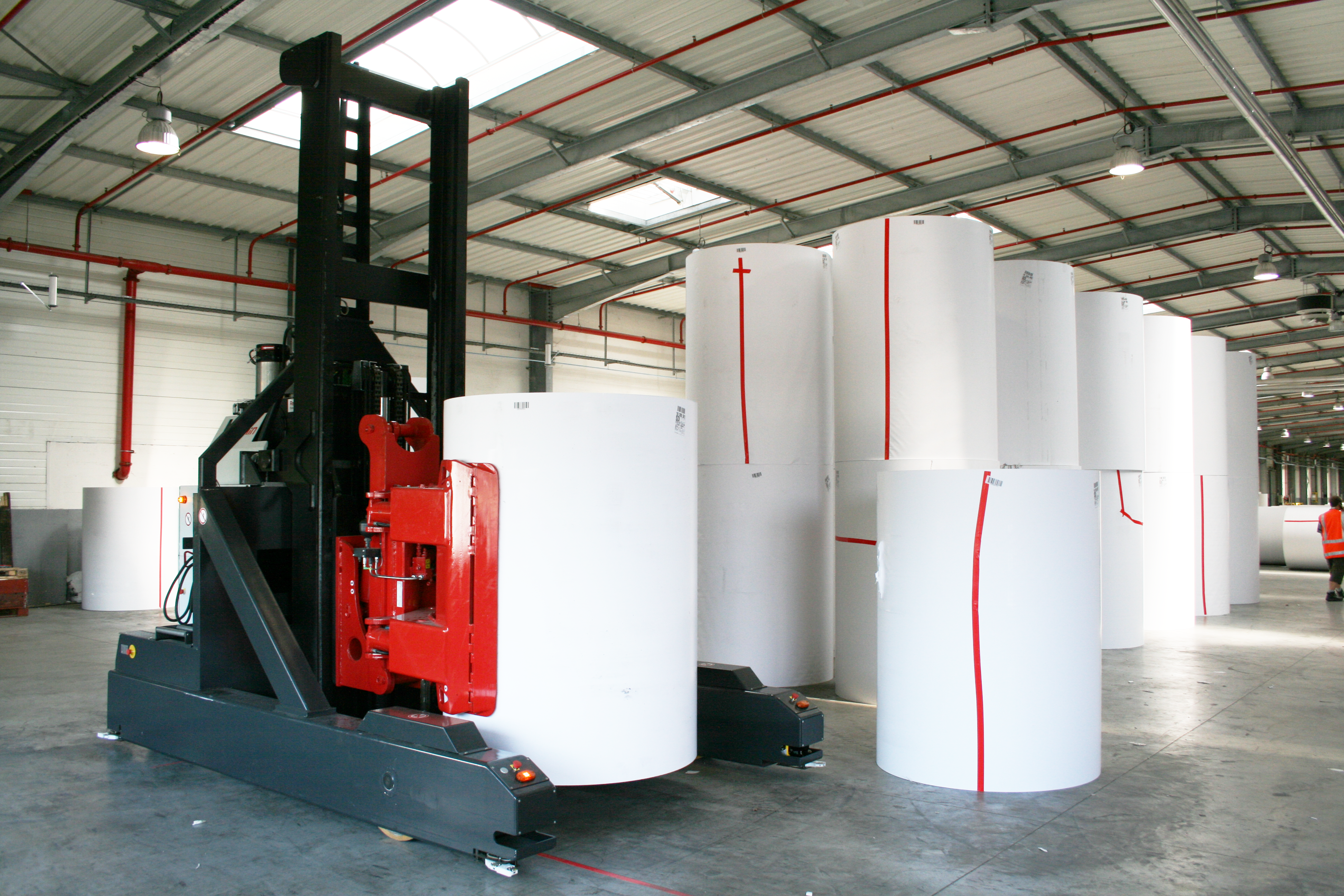 Roll Clamp vehicle with paper roll, courtesy of Egemin Automation Inc.